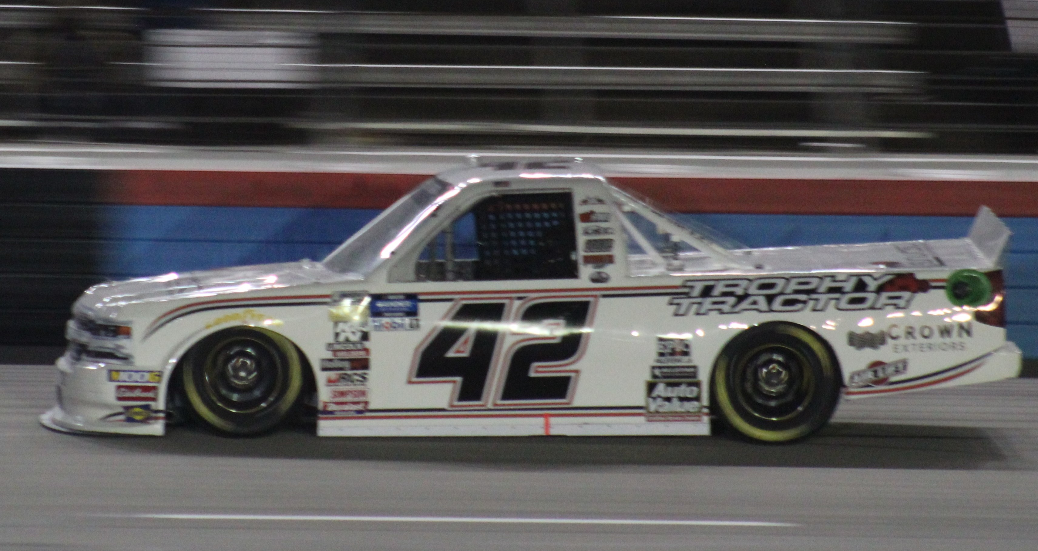 2019 O'Reilly Auto Parts 500